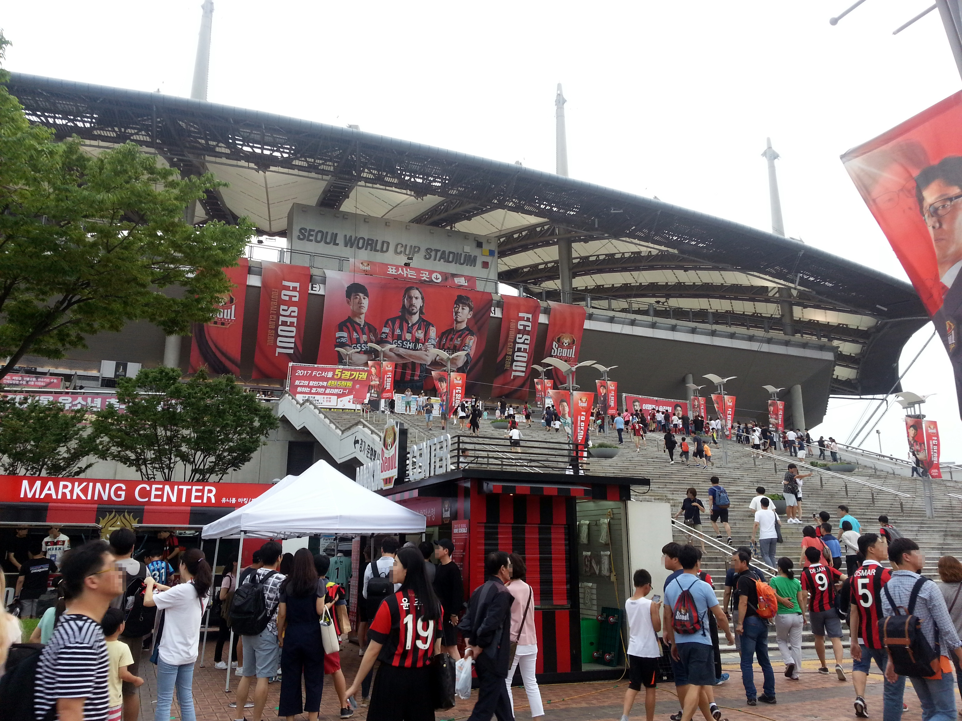 Seoul World Cup Stadium North side Plaza, FC Seoul vs Ulsan Hyundai, 19.August 2017, K League Classic 27 Round